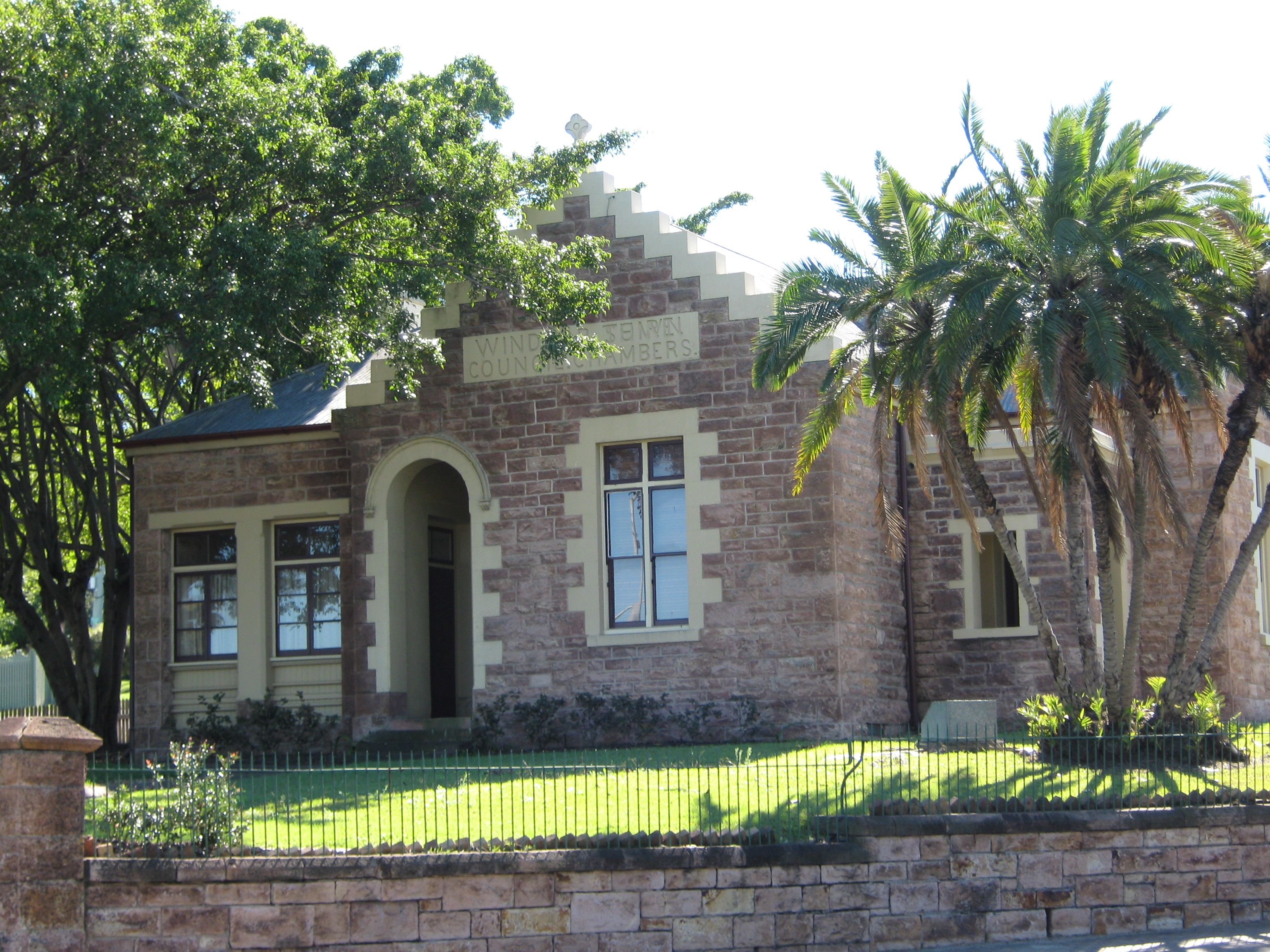 Windsor Town Hall, later renamed Windsor Shire Council Chambers.